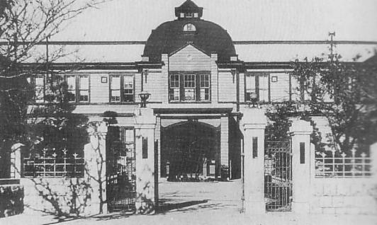 Fusan(Busan) District Court